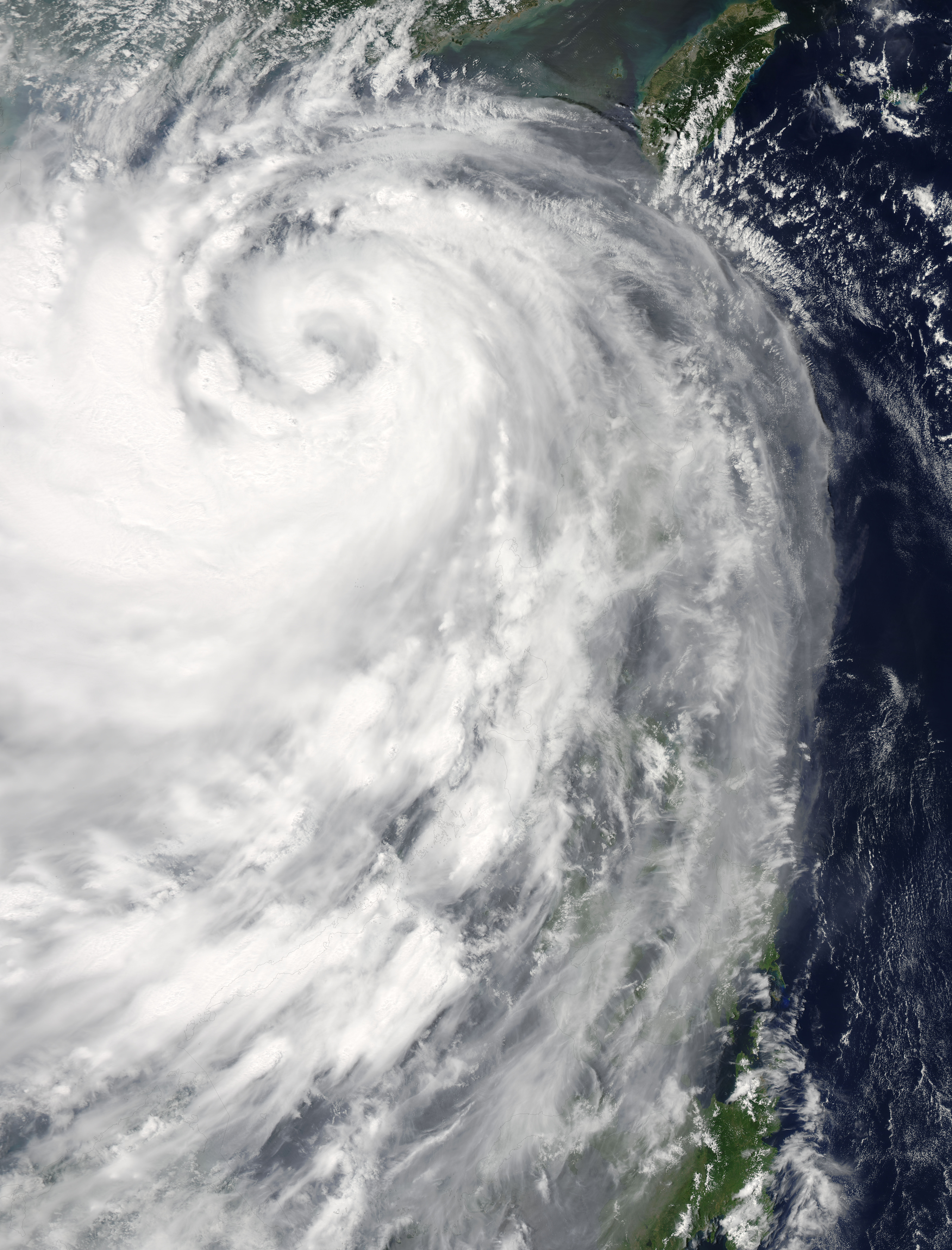 Typhoon Kalmaegi (15W) in the South China Sea